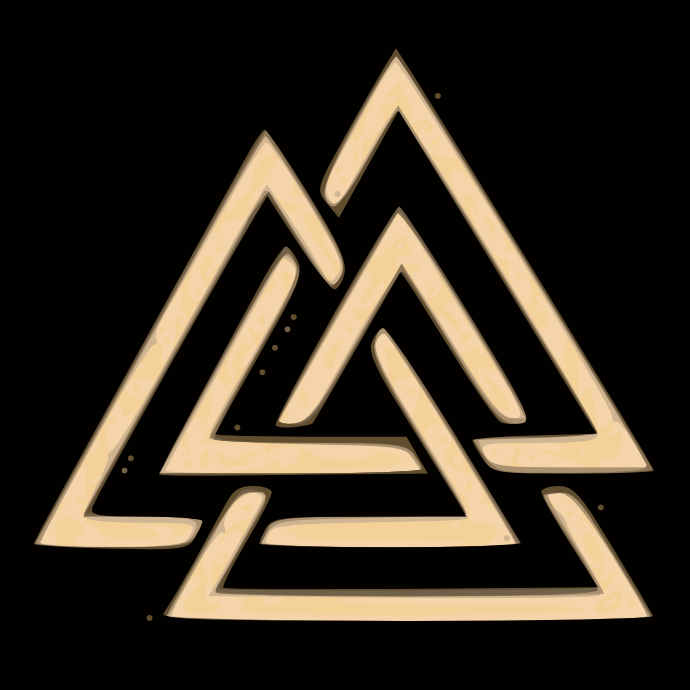 Orange version of the Valknut, a sacred symbol of ancient origins. In modern times it is used mainly by Asatruar and Vanatruar Heathen denominations. In this version of the Valknut, the triangles are interlinked in a Borromean rings pattern.